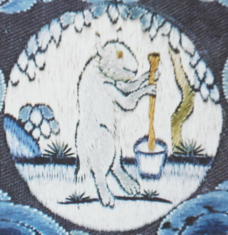 A medallion on an embroidered imperial robe (above the head of a dragon - not shown), with the White Hare of the Moon, at the foot of a cassia tree, making elixir of immortality